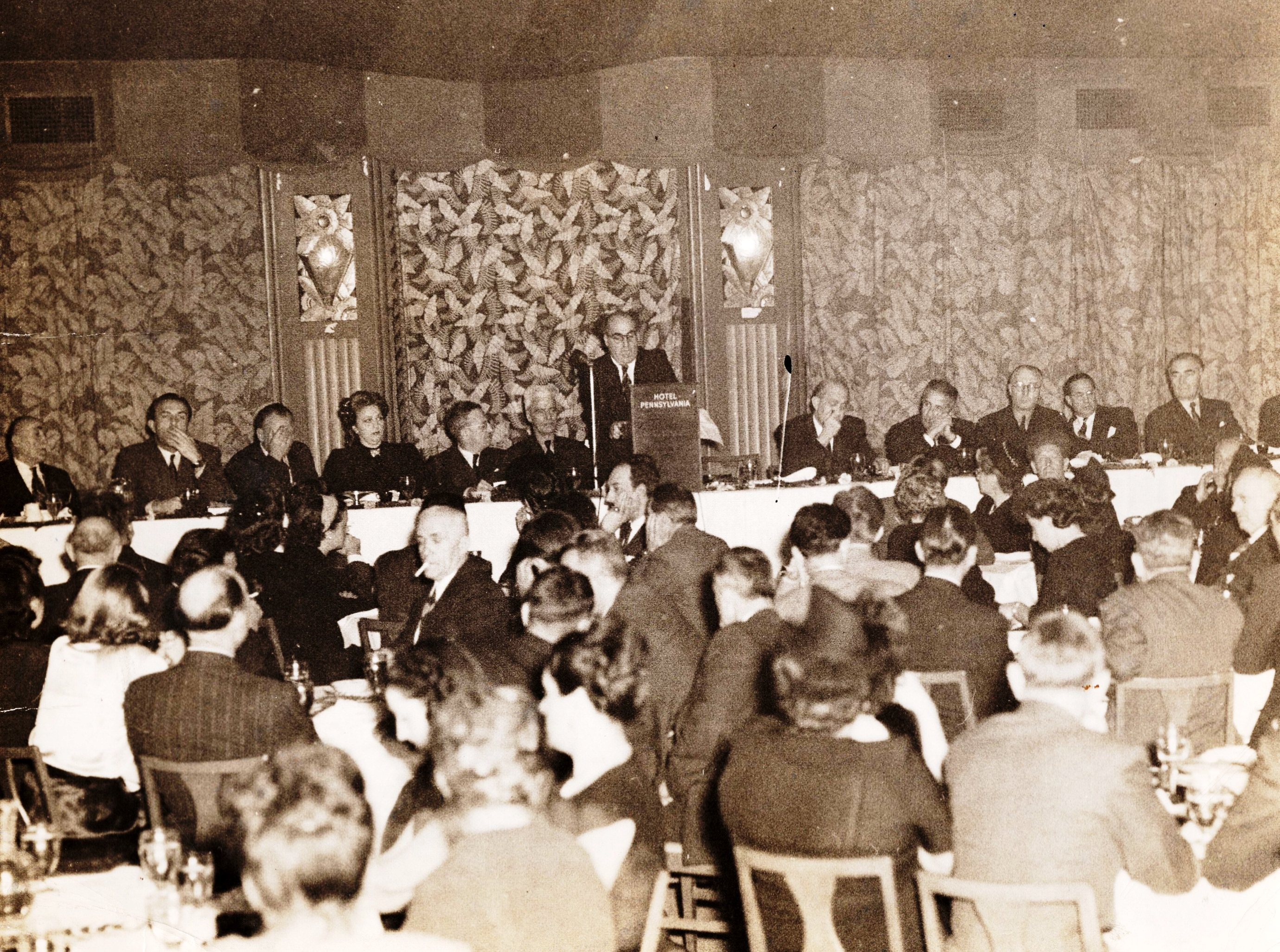 Banquet in honor of Dimitar Vlahov, 1946, in New York This media file is produced by Wikipedian in Residence in Category:Wikipedian in Residence at DARM in 2016.